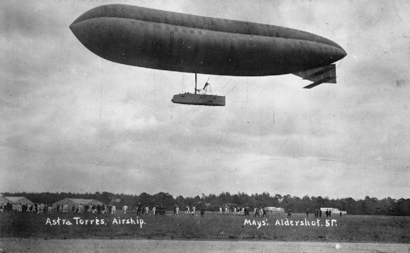 Aviation in Britain Before the First World War The Astra Torres airship in flight. The number of soldiers and sailors including men wearing overalls suggest that the airship could be preparing to land.